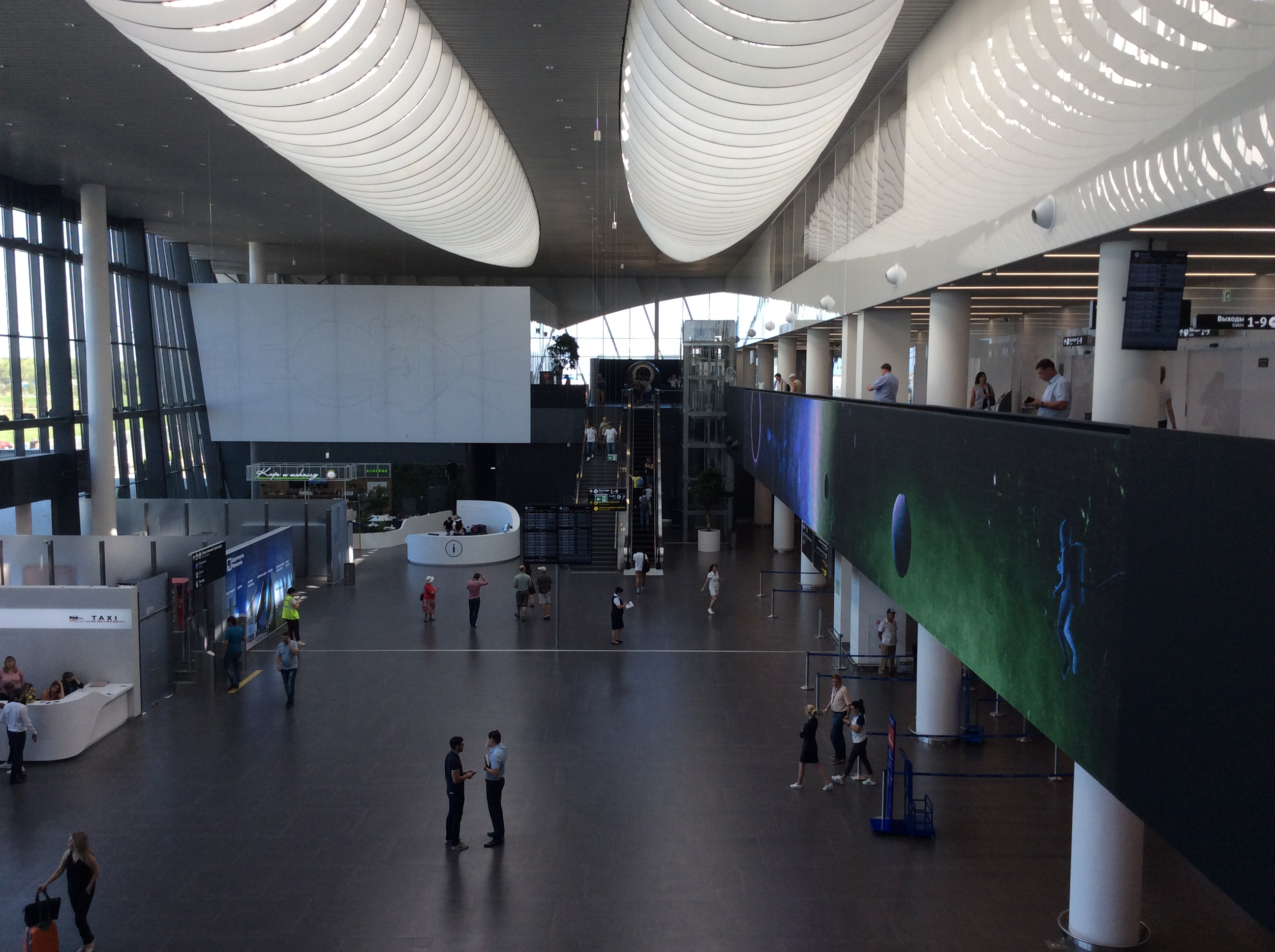 Saratov Gagarin Airport 2 days after opening.